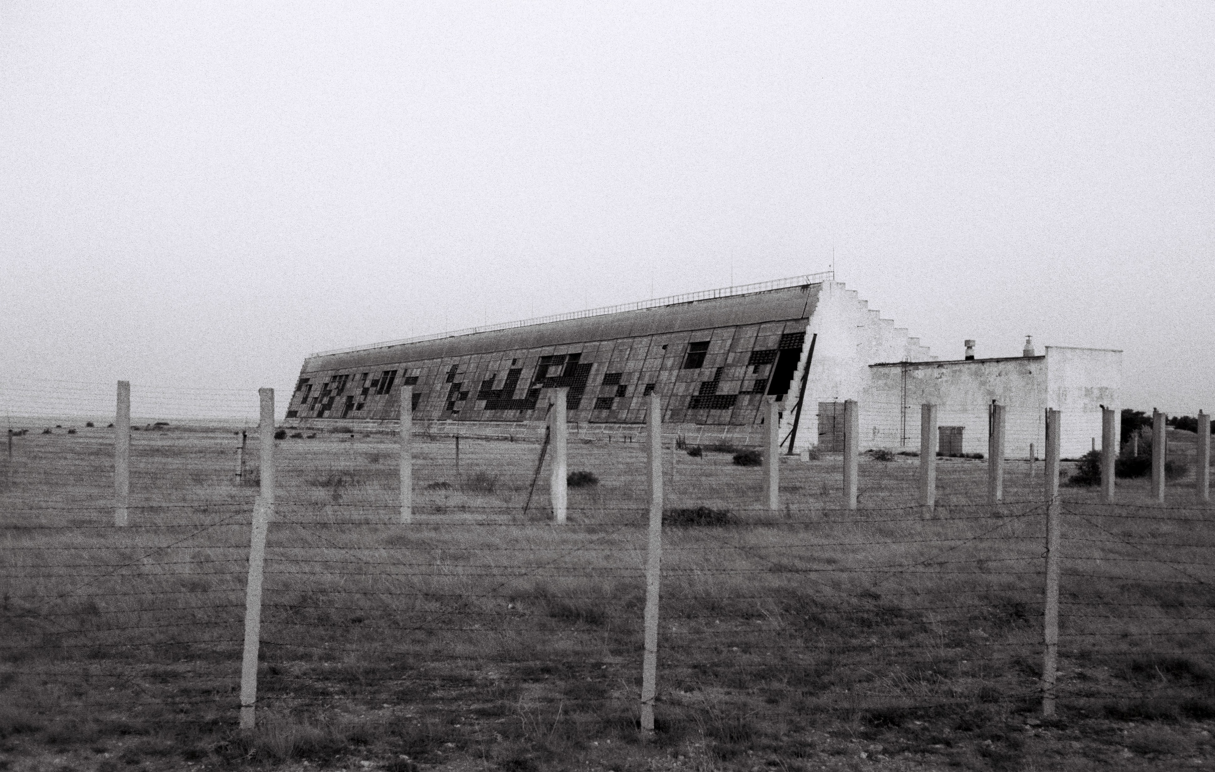 The Sevastopol radar station is an abandoned military installation dating from the Soviet era.